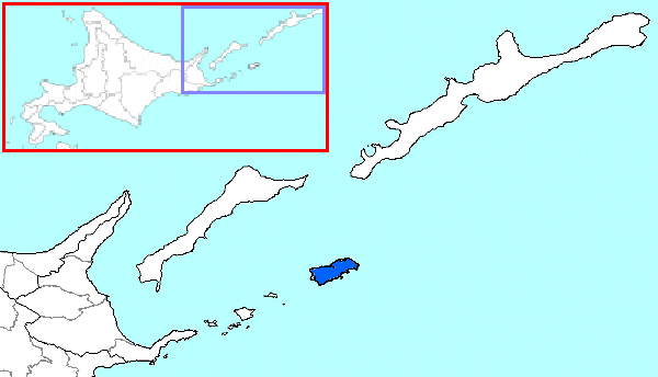 The location of Shikotan in Nemuro Subprefecture, Hokkaido Prefecture, Japan.